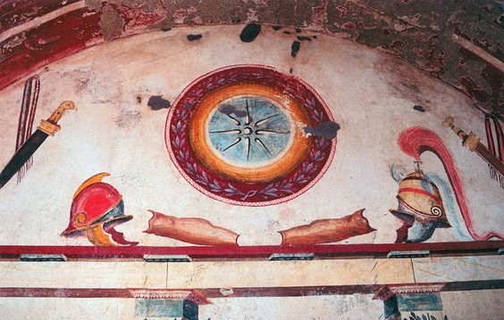 Paintings of Hellenistic-era military armor, arms, and gear from the Tomb of Lyson and Kallikles in ancient Mieza (modern-day Lefkadia), Imathia, Central Macedonia, Greece, dated 2nd century BC. For more information on this tomb, visit the Municipality of Naoussa webpage entitled "The Macedonian Tomb of Lyson and Kallikles".